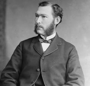 Riopel, Louis Joseph M.P. (Bonaventure, P.Q.) Nov. 11, 1843 - 1914.